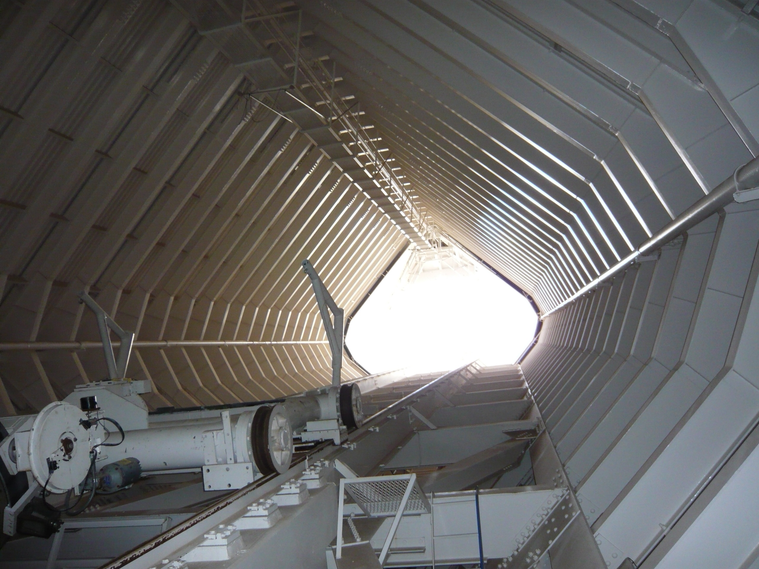 The inside of the McMath-Pierce solar telescope, looking outside towards the heliostats. The rails visible in the picture is used to move the third mirror up and down to position it above different optical tables.